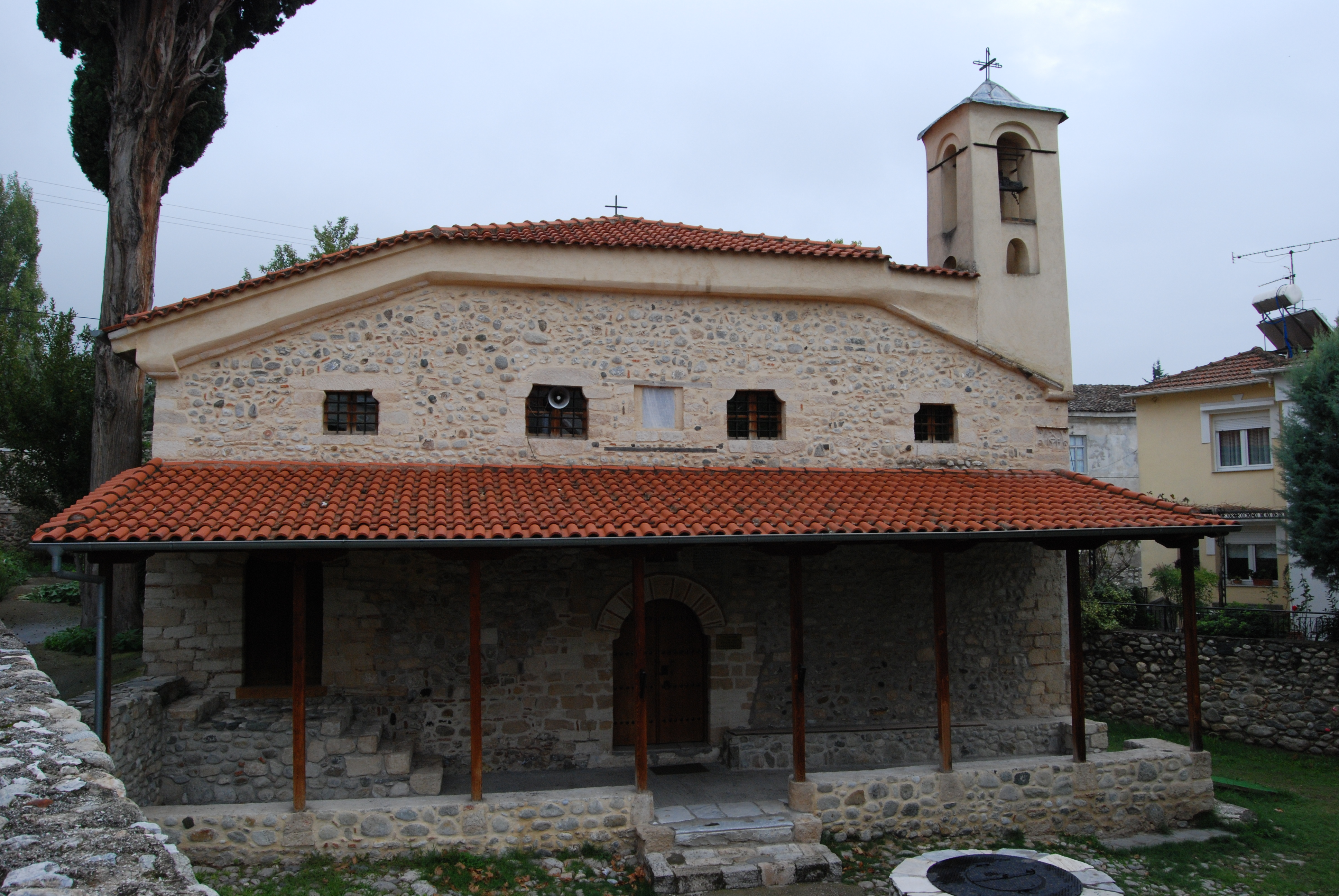 Saint John the Baptist, Serres